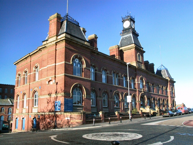 Booth House, in Werneth, Oldham, Greater Manchester, England. This fine building on Featherstall Road, Oldham, knew its heyday when Platt Bros. were a major player in the local engineering industry, and owned most of the surrounding area and buildings in the early 20th century. The building stood empty for a decade or more at the end of the century, and there were plans afoot to convert it into a luxury hotel. This idea never came to fruition, and it now serves as numerous small business and office units.